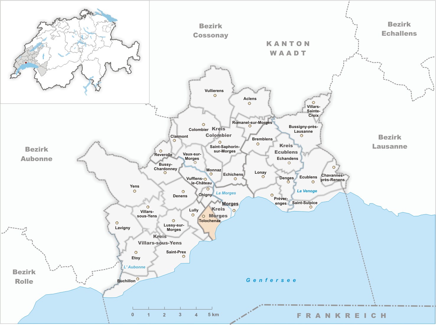 Municipality Tolochenaz